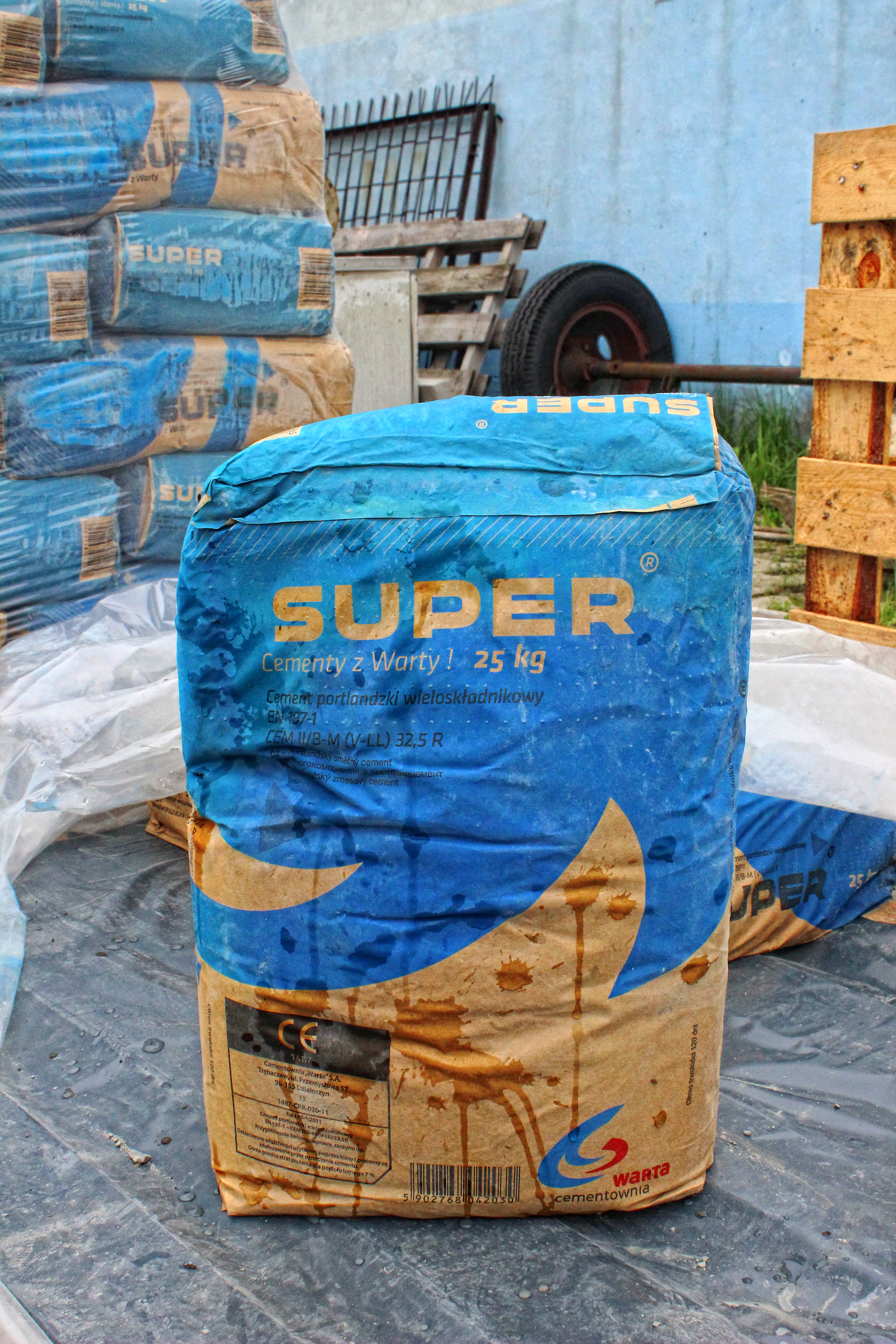 Portland cement bag